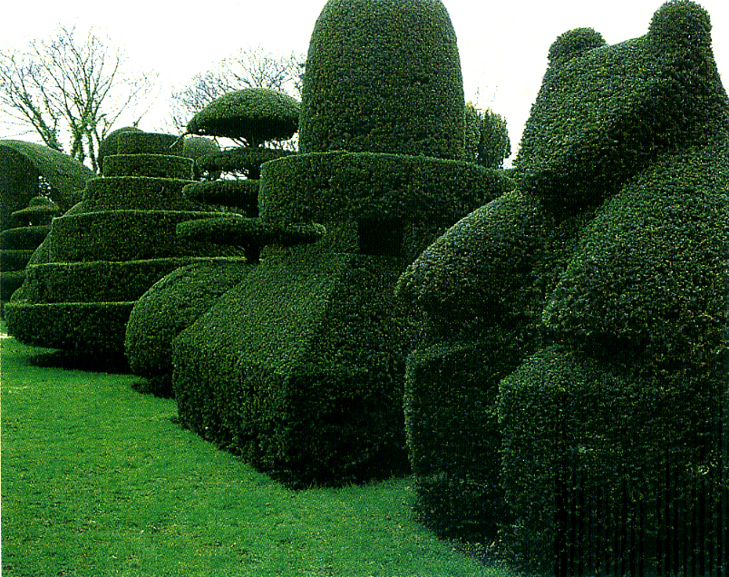 Topiary garden, Beckley Park manor, Oxfordshire, UK